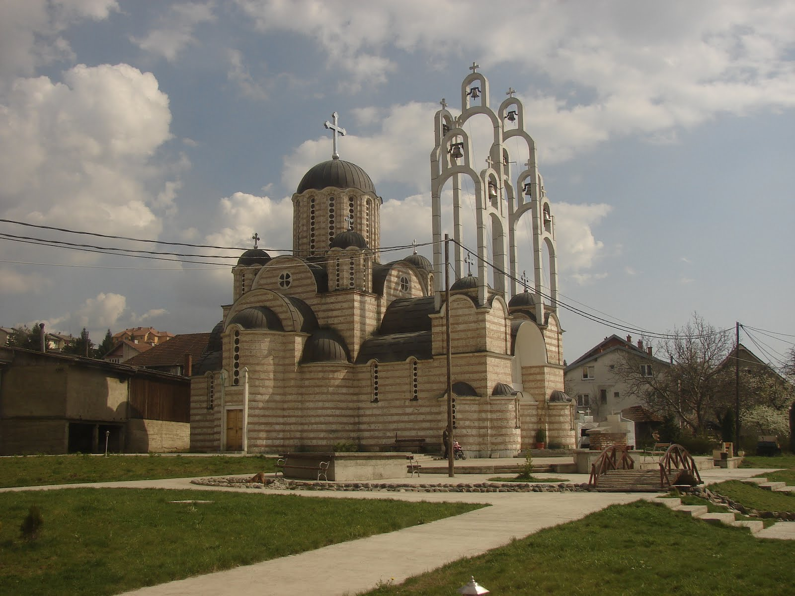 Church of St. Vasilije Ostroški, Leposavić